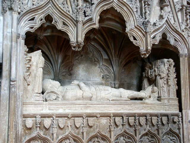 Interior of the Cathedral, Lincoln An early instance of the arms of Edward III and his four elder sons appears on the tomb on Sir Bartholomew Burghersh, K.G., in Lincoln Cathedral, c. 1355.